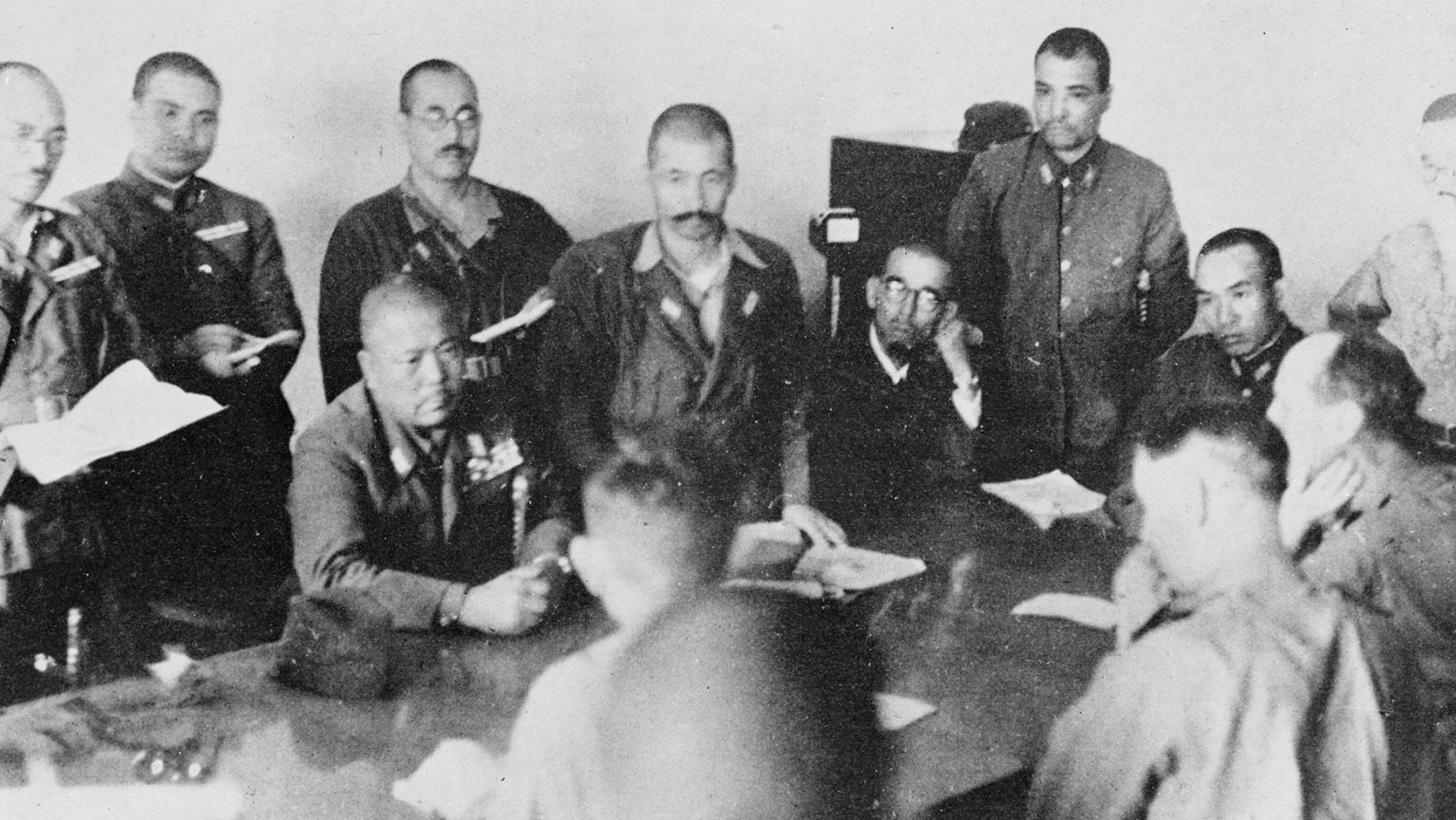 February 15, 1942. Battle of Singapore, British Surrender. Lt.-Gen. Yamashita (seated, centre) thumps the table with his fist to emphasize his terms -- unconditional surrender. Lt.-Gen. Percival sits between his officers, his clenched hand to his mouth. (Photo from Imperial War Museum) This photograph was created in Singapore during British colonial time. It has great historic and educational value for independent Singapore. In addition, the copyright of the photograph may be expired. In Singapore, copyright expired after 50 years. In UK, photographs taken before 1955 are in public domain. This photograph is taken in 1942 and has exceeded sixty years. This photograph is also found in the Singapore National Archive, the majority of the content there is Public Domain. Either way, it is Public domain. Source: Imperial War Museum